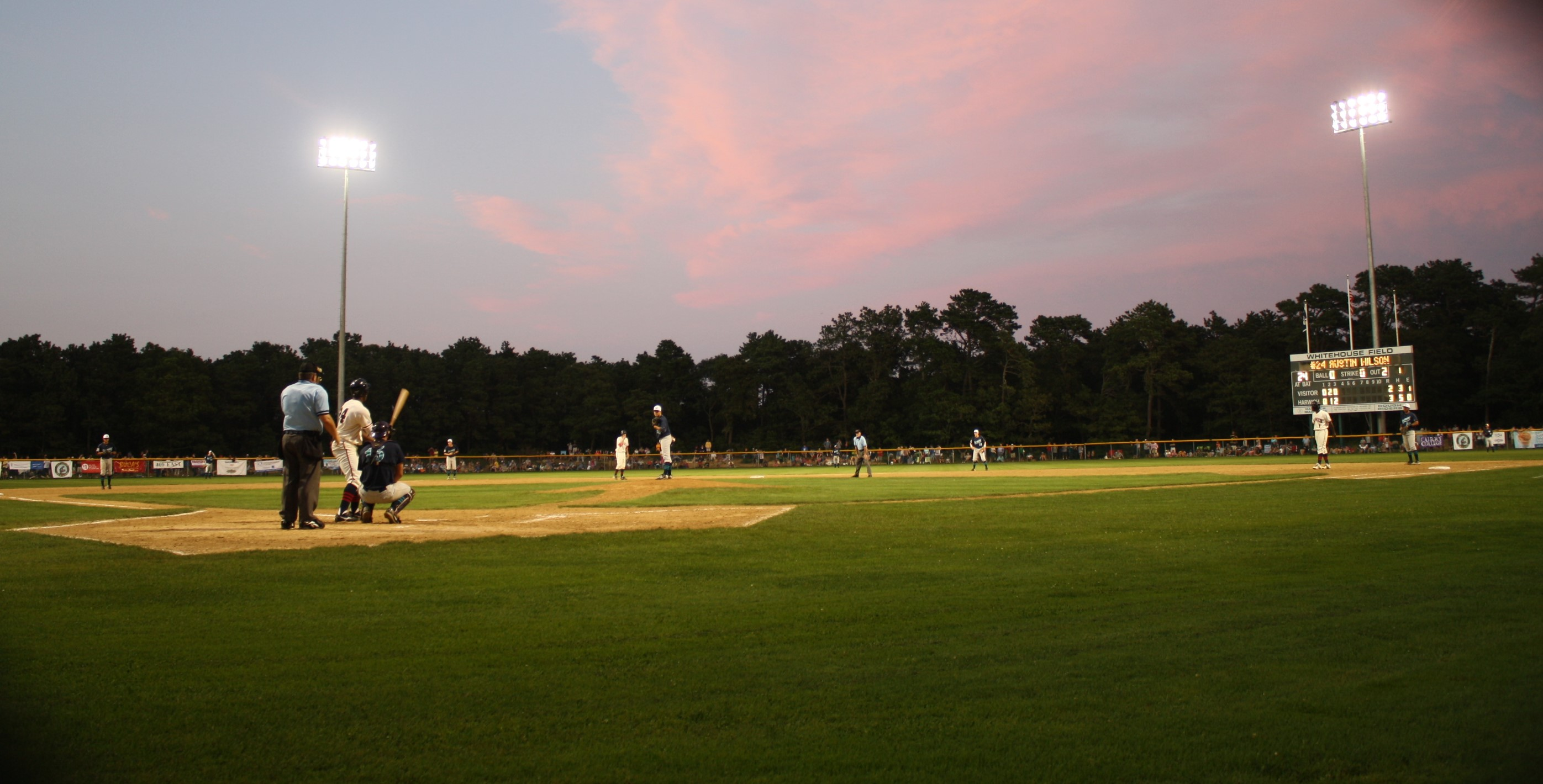 Night game at B.F.C. Whitehouse Field, Harwich, Massachusetts, 2011